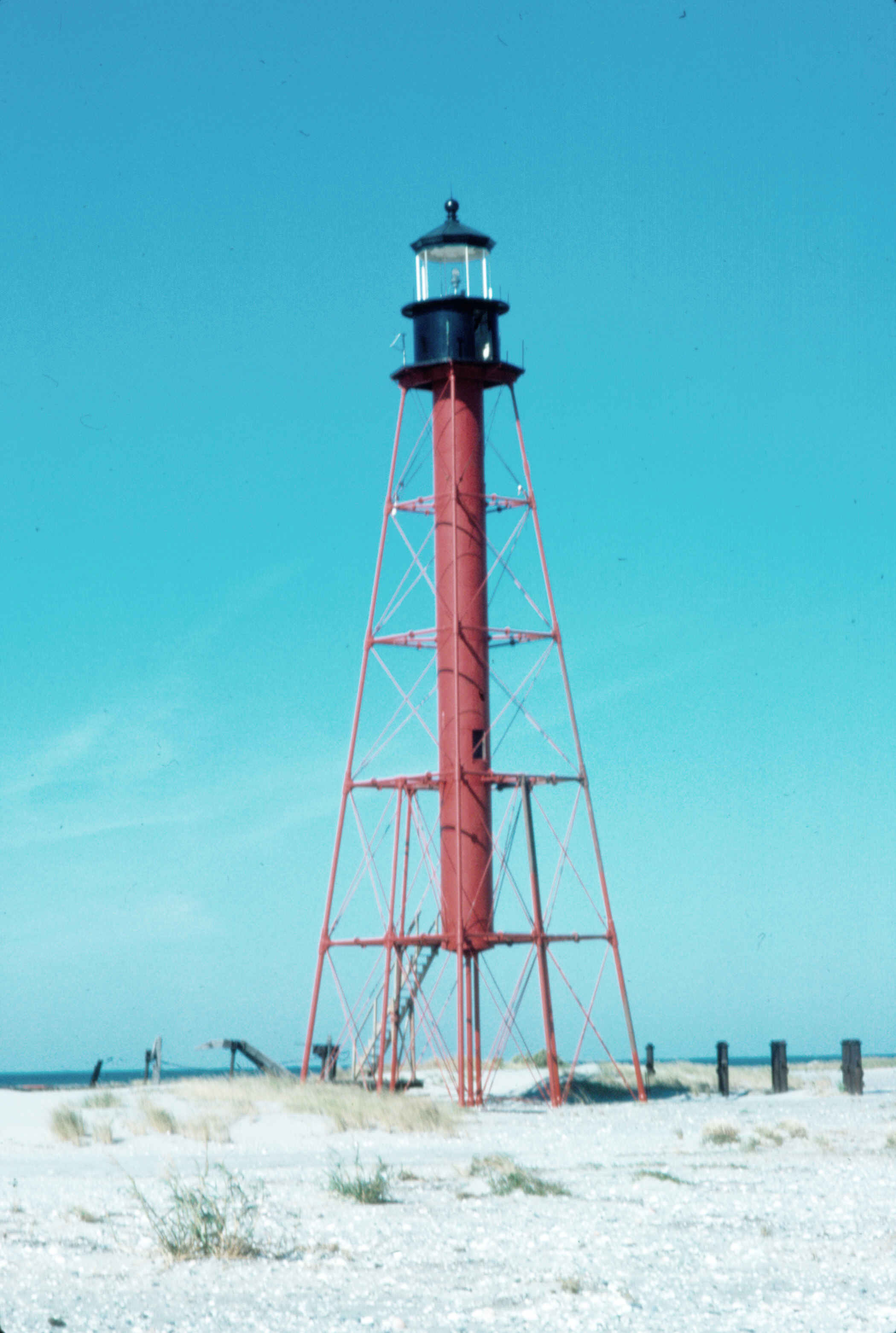 Sometime in the late 1980s, probably 1986, a colleague and I flew with representatives of a defense communications contractor and the Mississippi Air National Guard out to Chandeleur Island, in the Gulf of Mexico, not far from the mouth of the Mississippi, to conduct a feasibility survey for installing a small flight training antenna on the island, either on its own structure, or on the old lighthouse. Nothing came of the project and the island and the lighthouse were finally wiped away by Hurricane Katrina. The Sikorsky Skycrane and crew that flew us out were the same that, not long before, had lifted a new statue to the top of the Texas Capitol, after the Texas Air National Guard had made several unsuccessful attempts. The crew made a point of telling me, a Texan, this. In 2007, the folks with Louisiana Sea Grant saw one of my photos of the lighthouse and asked if they could use my photos. I happily sent the slides and some may be viewed here [1] along with other great photos and information on Chandeleur Island. The slides, unfortunately, including some interior shots of the lighthouse, have since been lost in the mail.